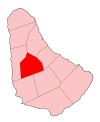 Map of Barbados showing Saint Thomas parish.